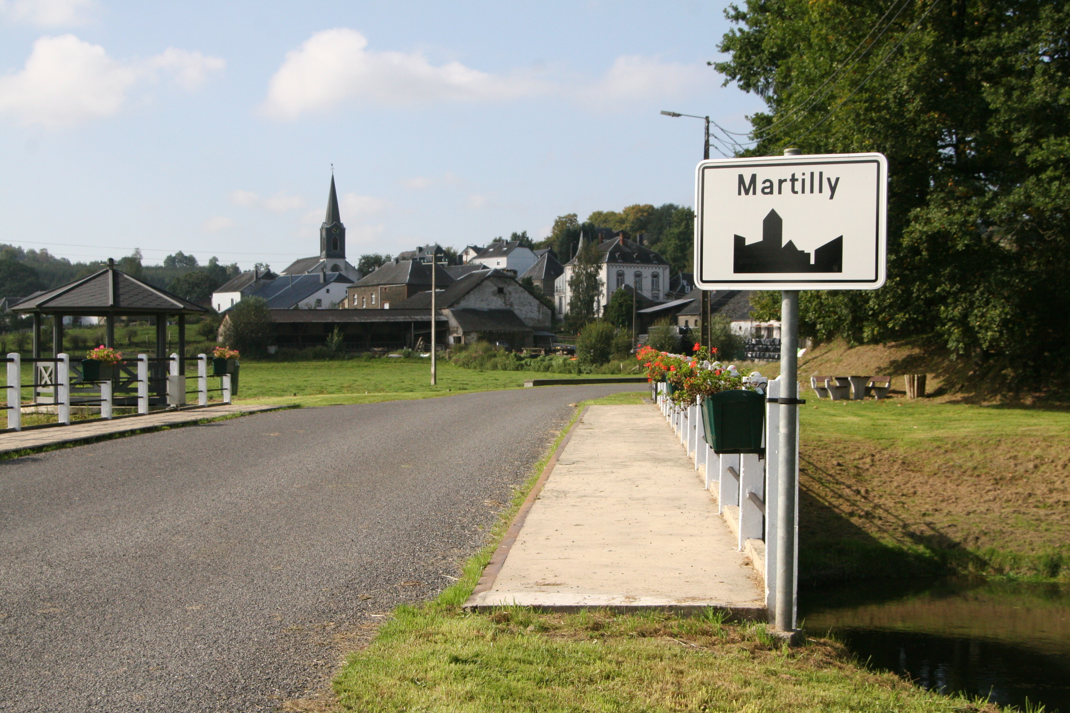 Martilly is a village in the municipality of Herbeumont, Belgium